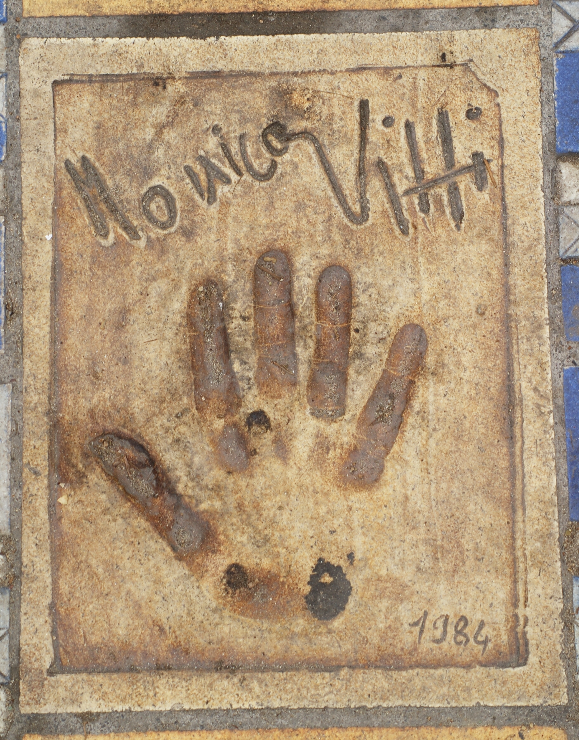 Handprint and autograph of Monica Vitti on the walkway in front of the Palais des Festivals et des Congrès in Cannes.